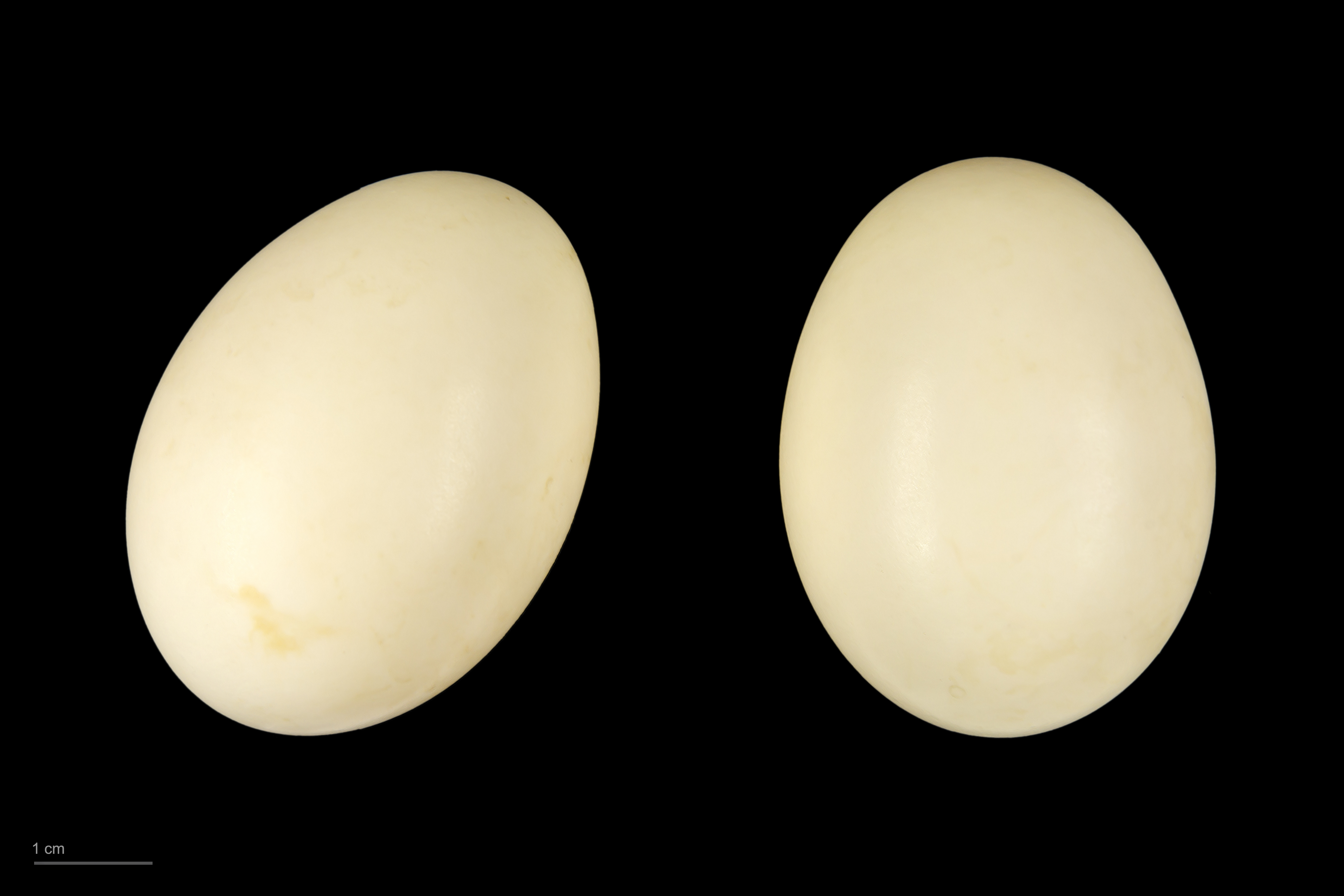 Egg of garganey Collection of Jacques Perrin de Brichambaut.